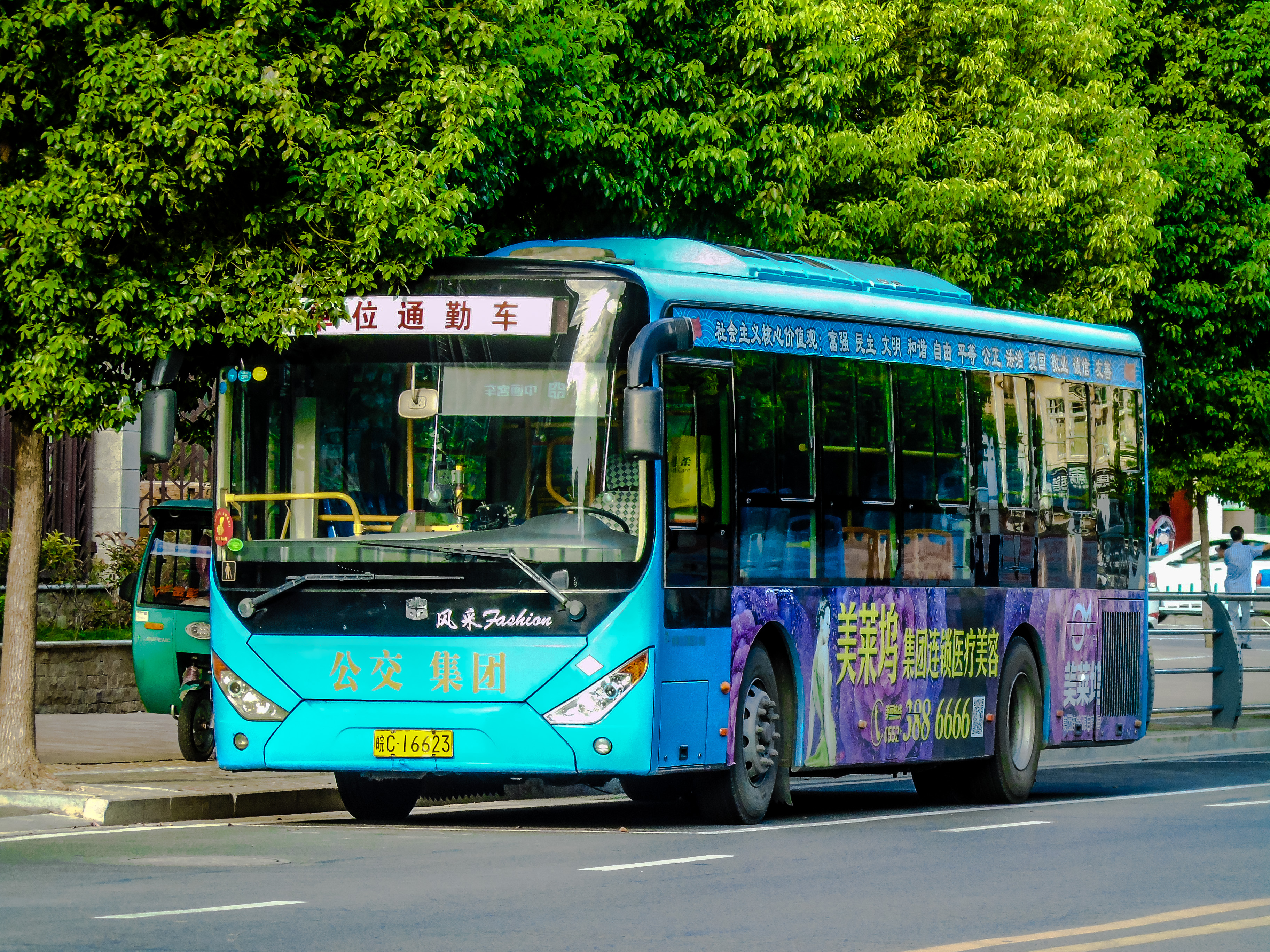 Bengbu Bus Regular bus 1